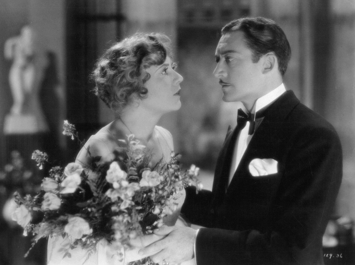 Photo of Lois Wilson and Theodore Von Eltz in a scene from the film Furies (1930).